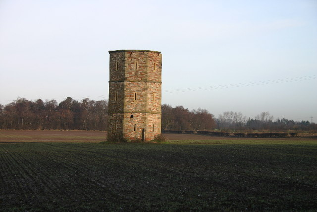 Victorian Folly built by George Head Head at Rickerby